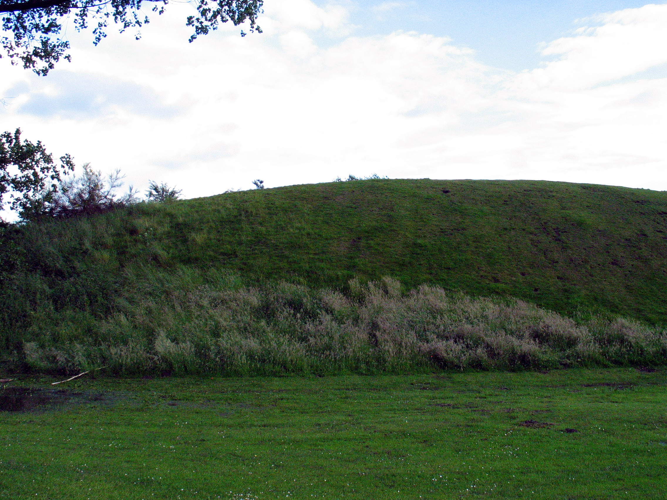 Worm Hill at Fatfield, Washington, beside the River Wear, taken by Peter Hughes on Monday 2 July 2007.